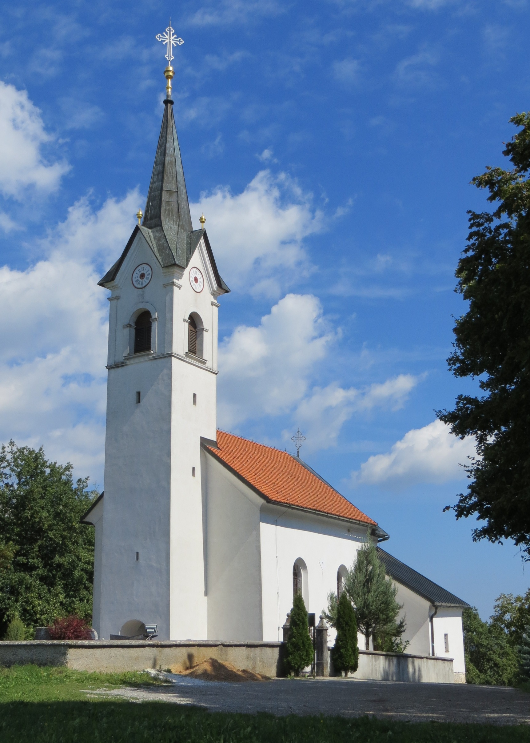 Church in Sinja Gorica, Municipality of Vrhnika, Slovenia